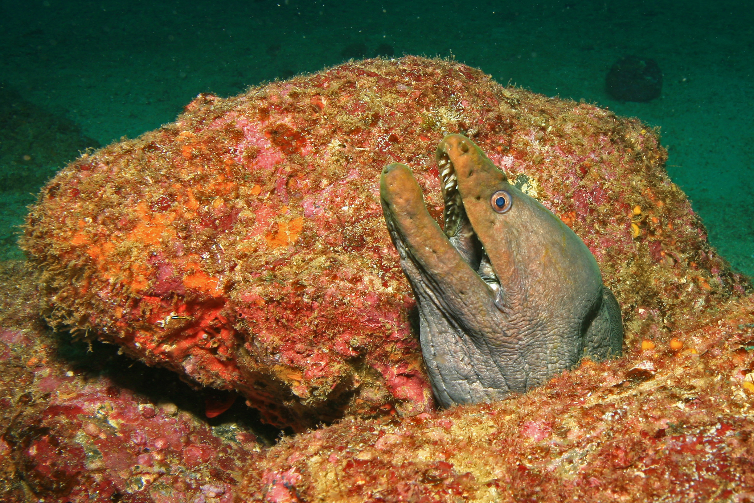 A huge Panamic Green Moray (Gymnothorax castaneus) reluctantly eases up from its coloful rock home in Coiba National Park. As with much of the wildlife in this undersea park, infrequent contact with humans leaves them skittish and some patience is required to get close to the subject. Photographed near Isla Canales de Afuera - inside the protected waters of Coiba National Park, Panama